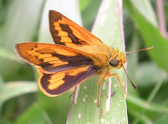 Palm dart (species ? probably difficult to tell) Hesperiidae from Hebbal, Bangalore, India